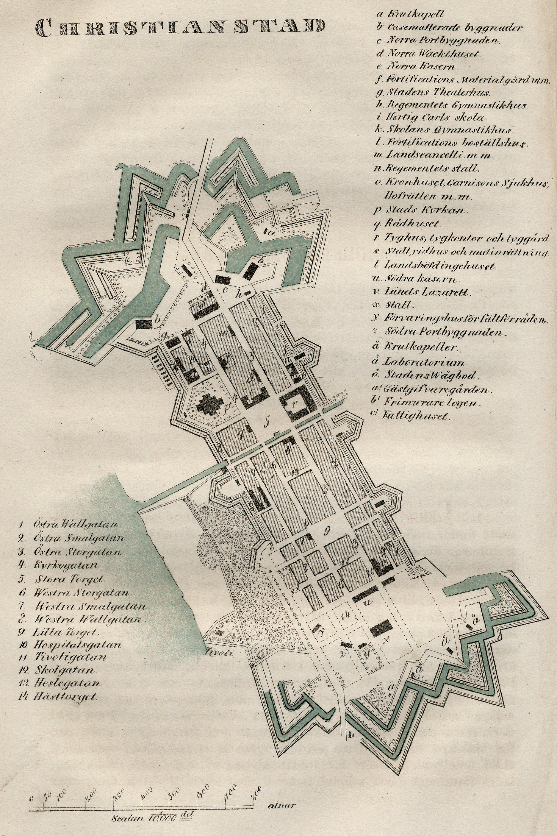 Map from about 1850 of the town of Kristianstad in Sweden.